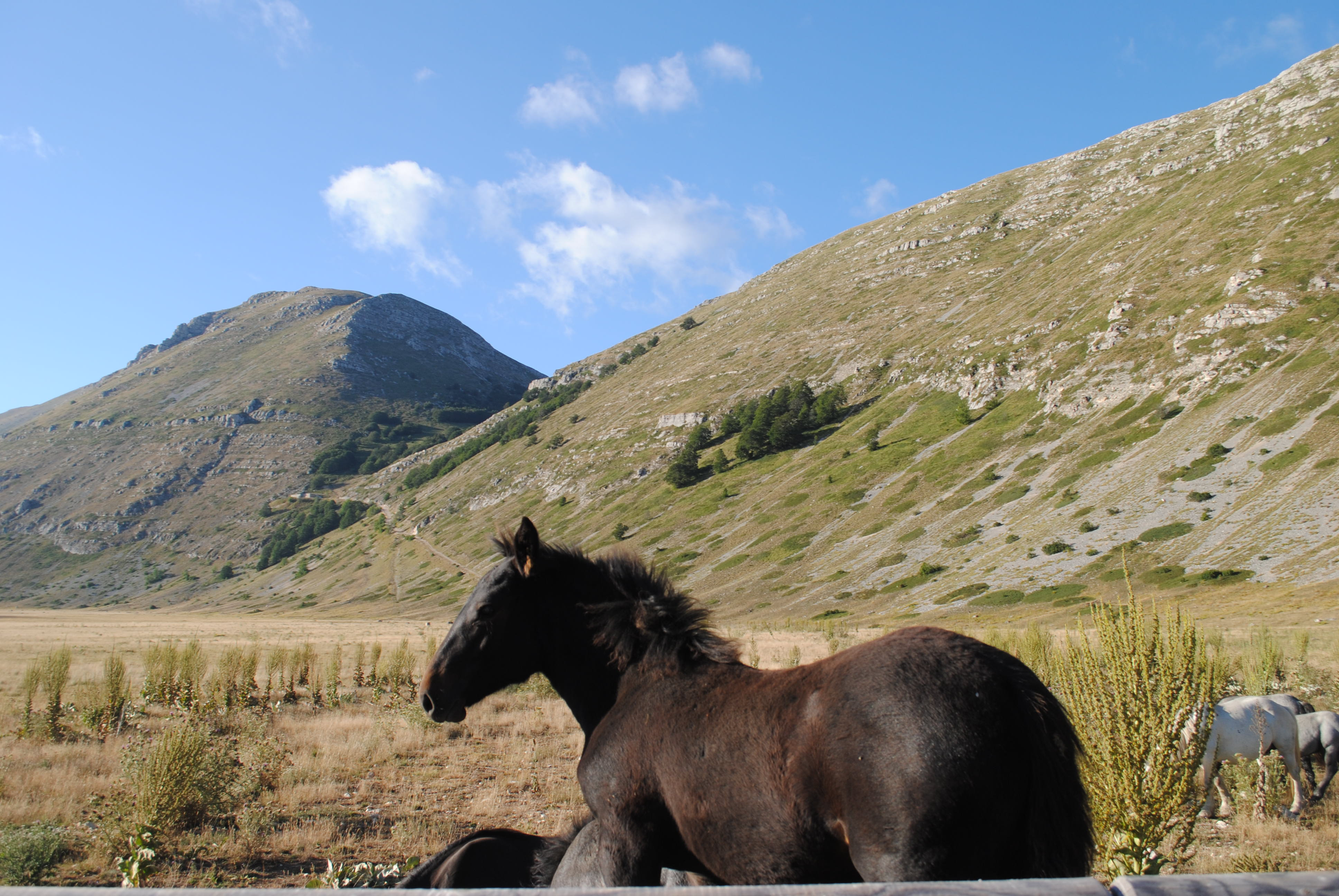 Horses of the Italian mountains Appennini, near skiing center Campo Felice